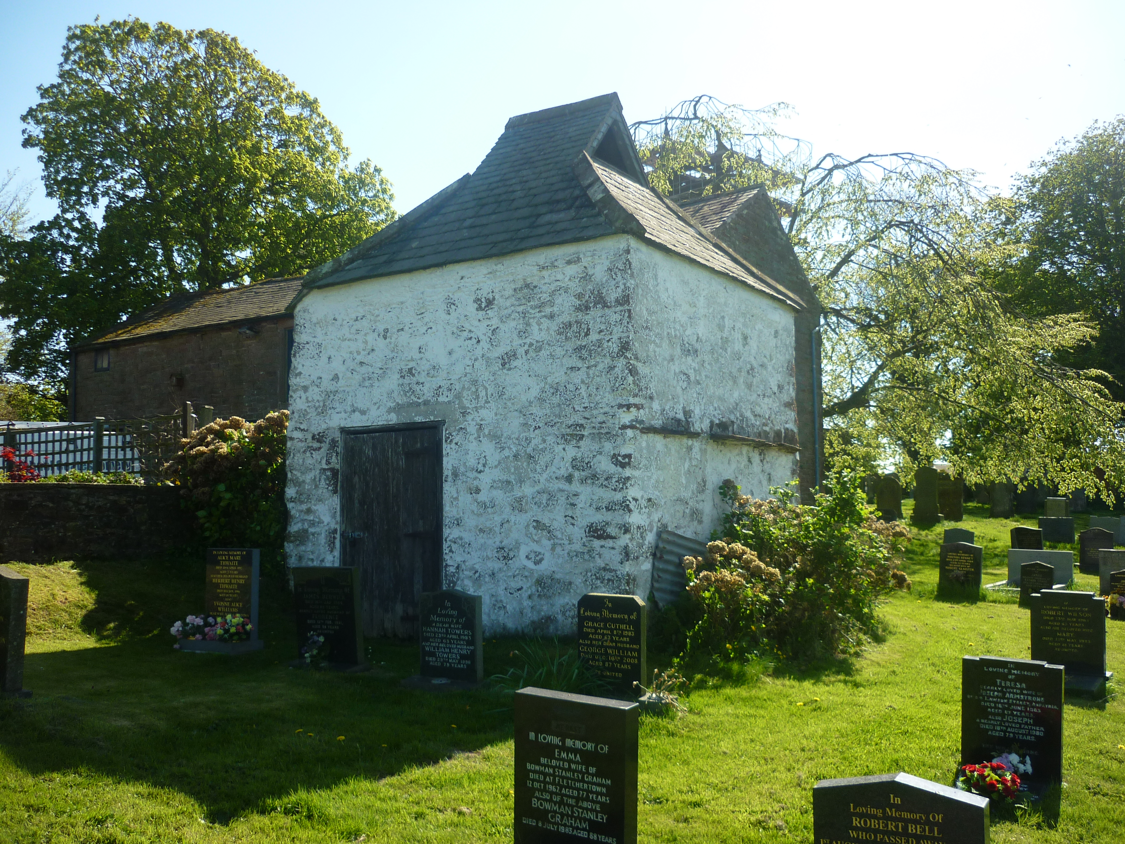 Dovecote in St Kentigern's parish churchyard, Aspatria, Cumbria